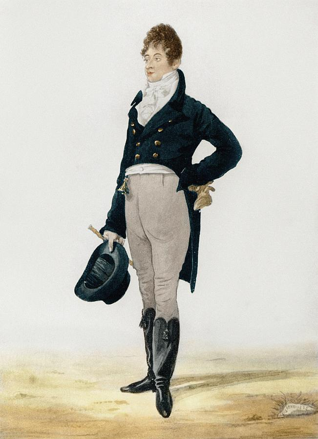 George "Beau" Brummell, watercolor by Richard Dighton (1805) Caricature of Beau Brummell done as a print by Robert Dighton, 1805.